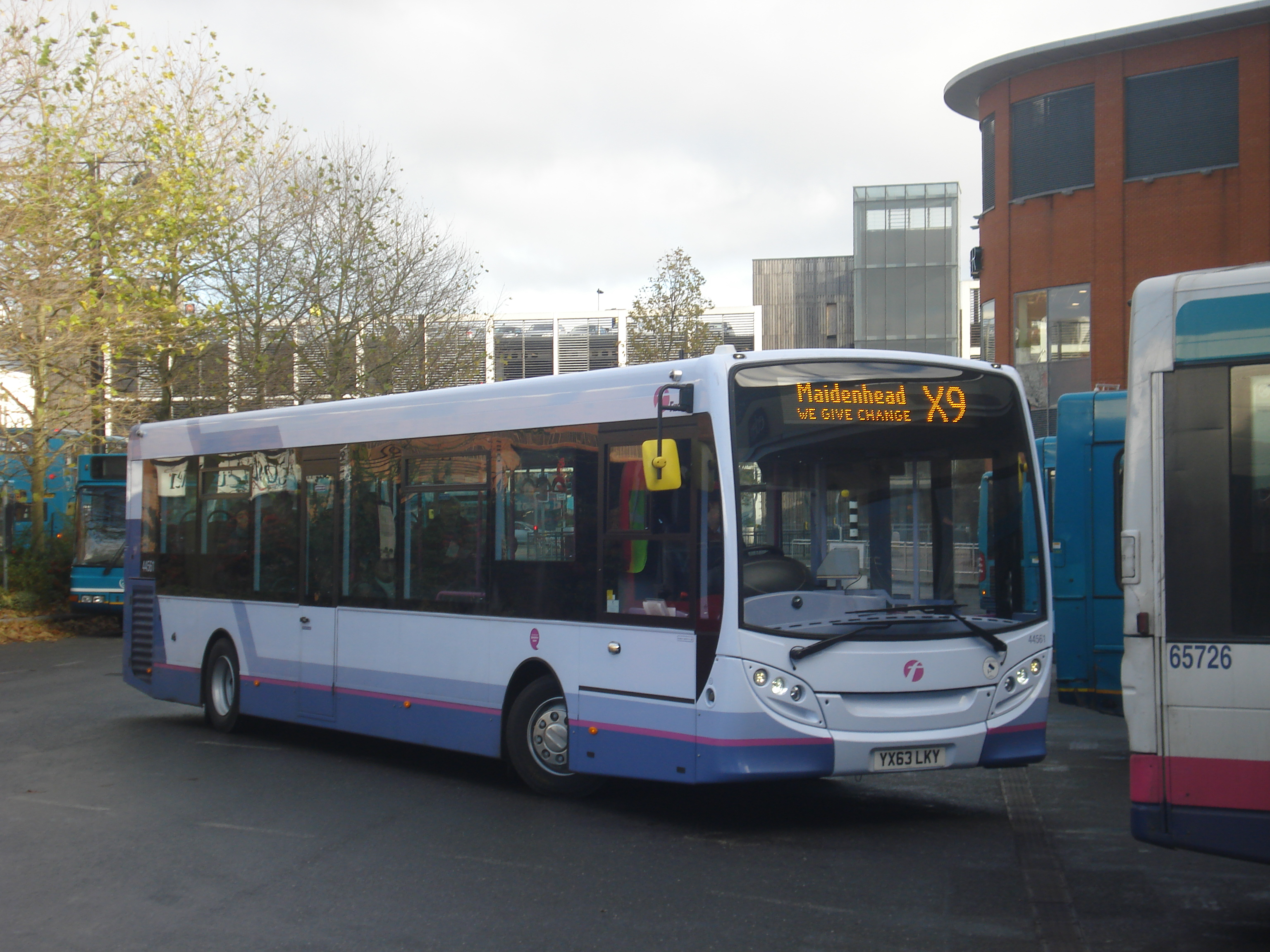 First Beeline 44561 on Route X9, High Wycombe Eden Bus Station